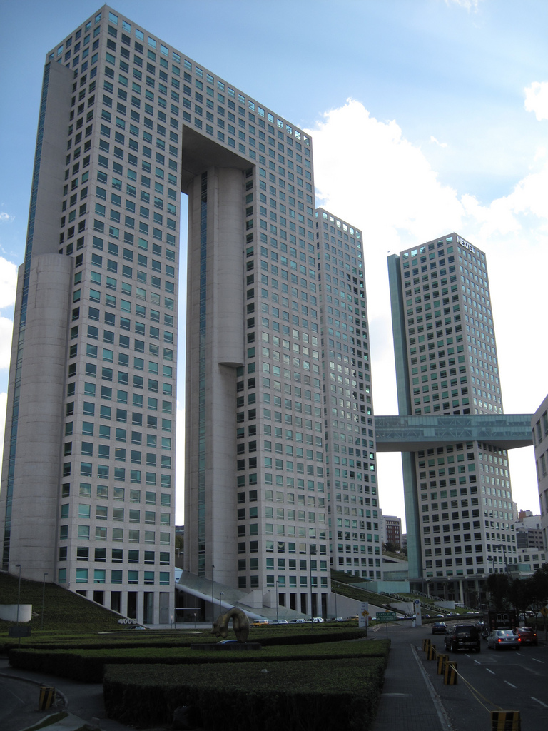 Across Towers, Mexico City